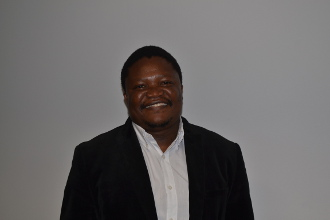 prof Thebe Medupes NRF profile photo